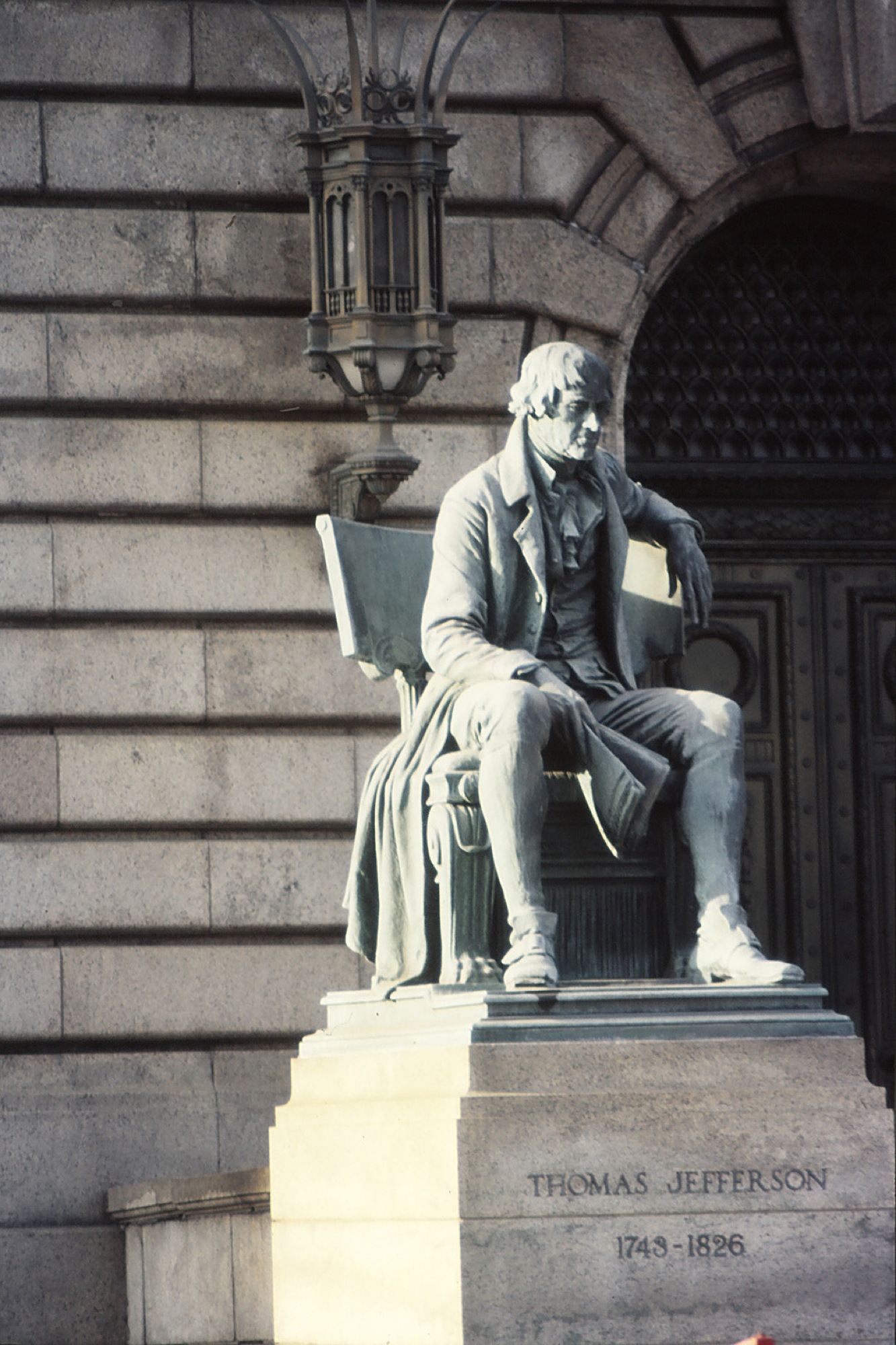 located in front of the Cuyahoga County Courthouse, Cleveland OH USA